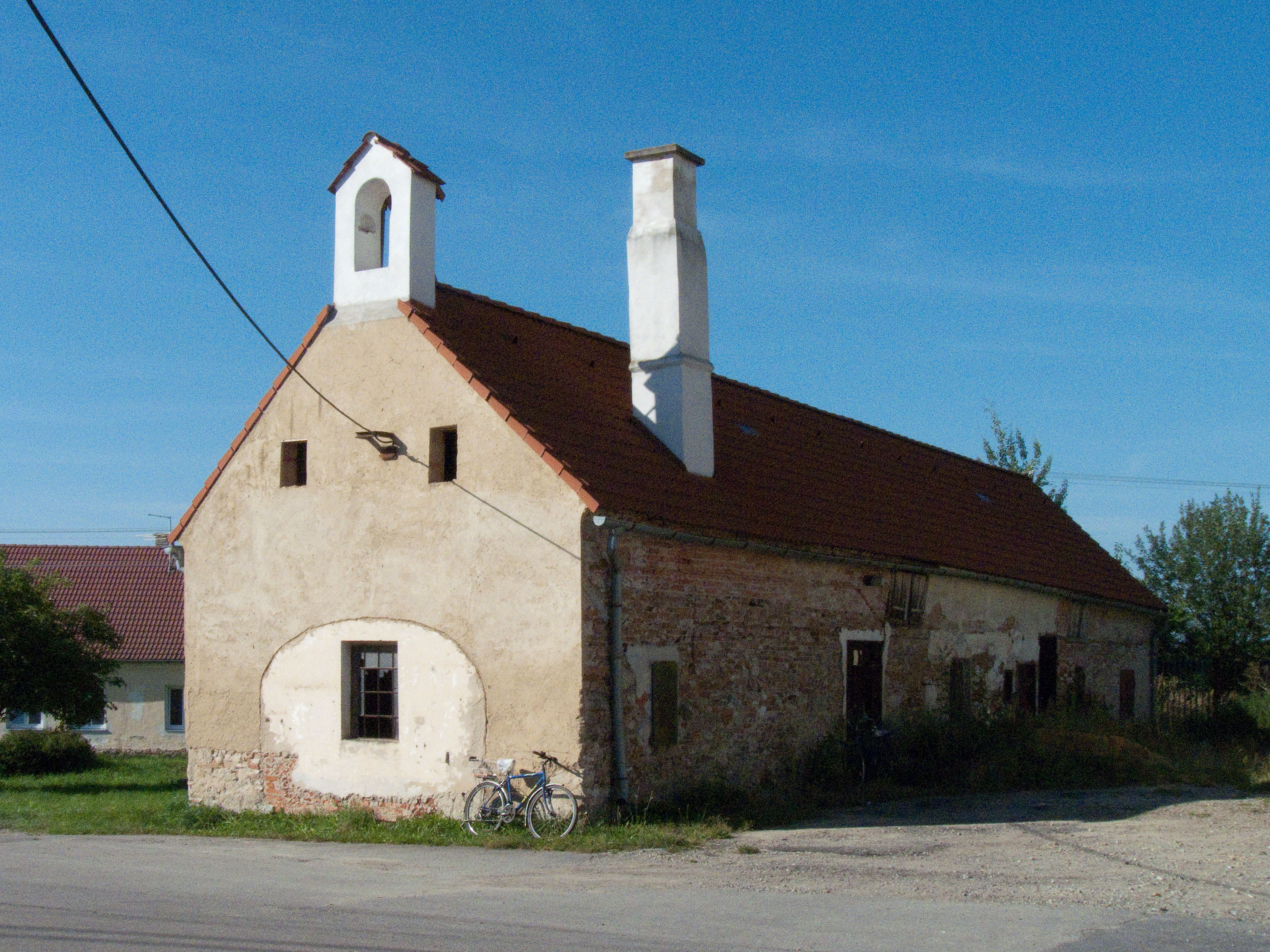 Former smithy in Haklovy Dvory, České Budějovice district, Czech Republic